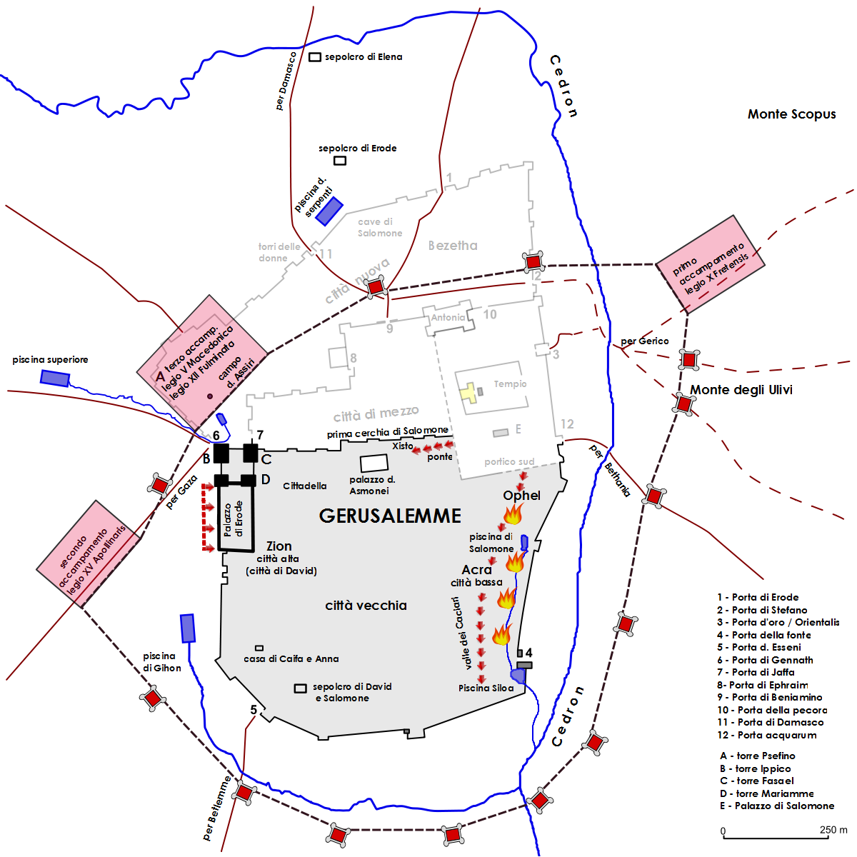 Jerusalem at the time on siege of 70 - 10th step